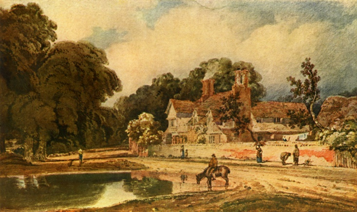 Classic scene